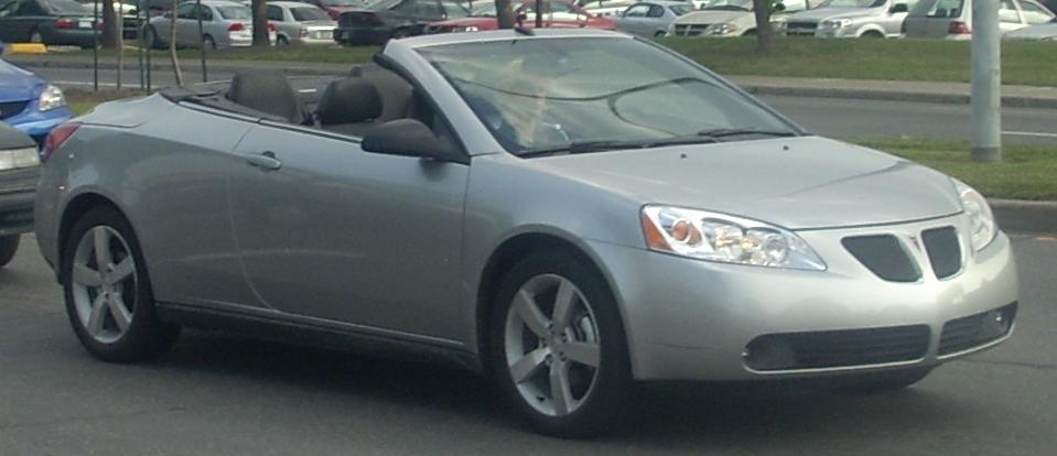 2007-present Pontiac G6 photographed in Montreal, Quebec, Canada.